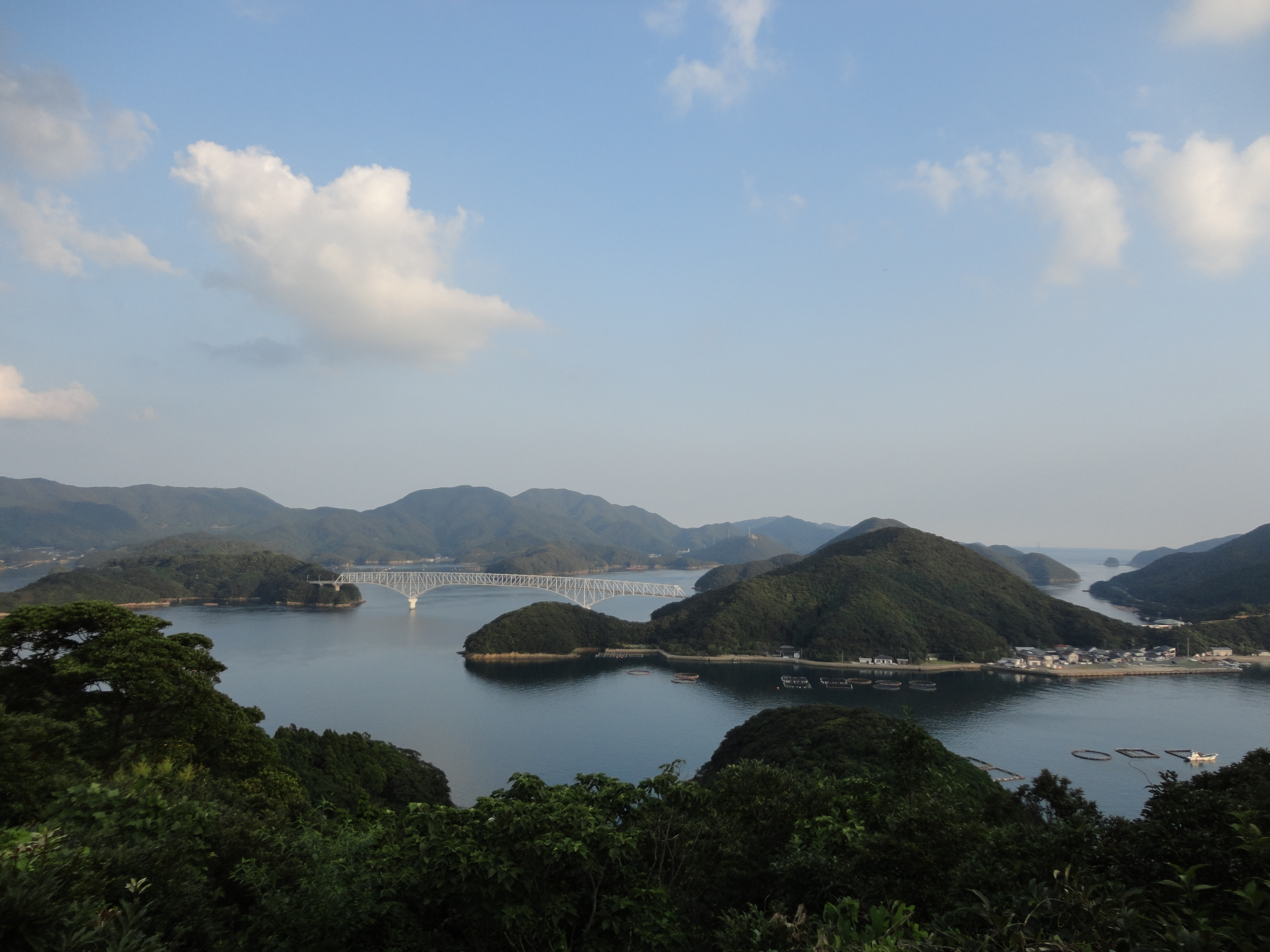 A view of Wakamatsu Oohashi ("Wakamatsu Great Bridge") and Wakamatsu Seto ("Wakamatsu Strait") from Ryuukanzan ("Dragon View Mountain") at sunset. Foreground and right is Wakamatsu Island; left end of the bridge rests on tiny and unpopulated Kaminaka Island, with the southern end of Nakadoori Island occupying most of the background on the left side of the photo. Another unpopulated islet, Shimonaka Island, can be glimpsed just right of center, behind the peninsula of Wakamatsu Island on which the right end of the bridge rests.